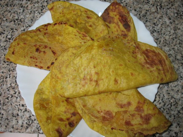 god poli